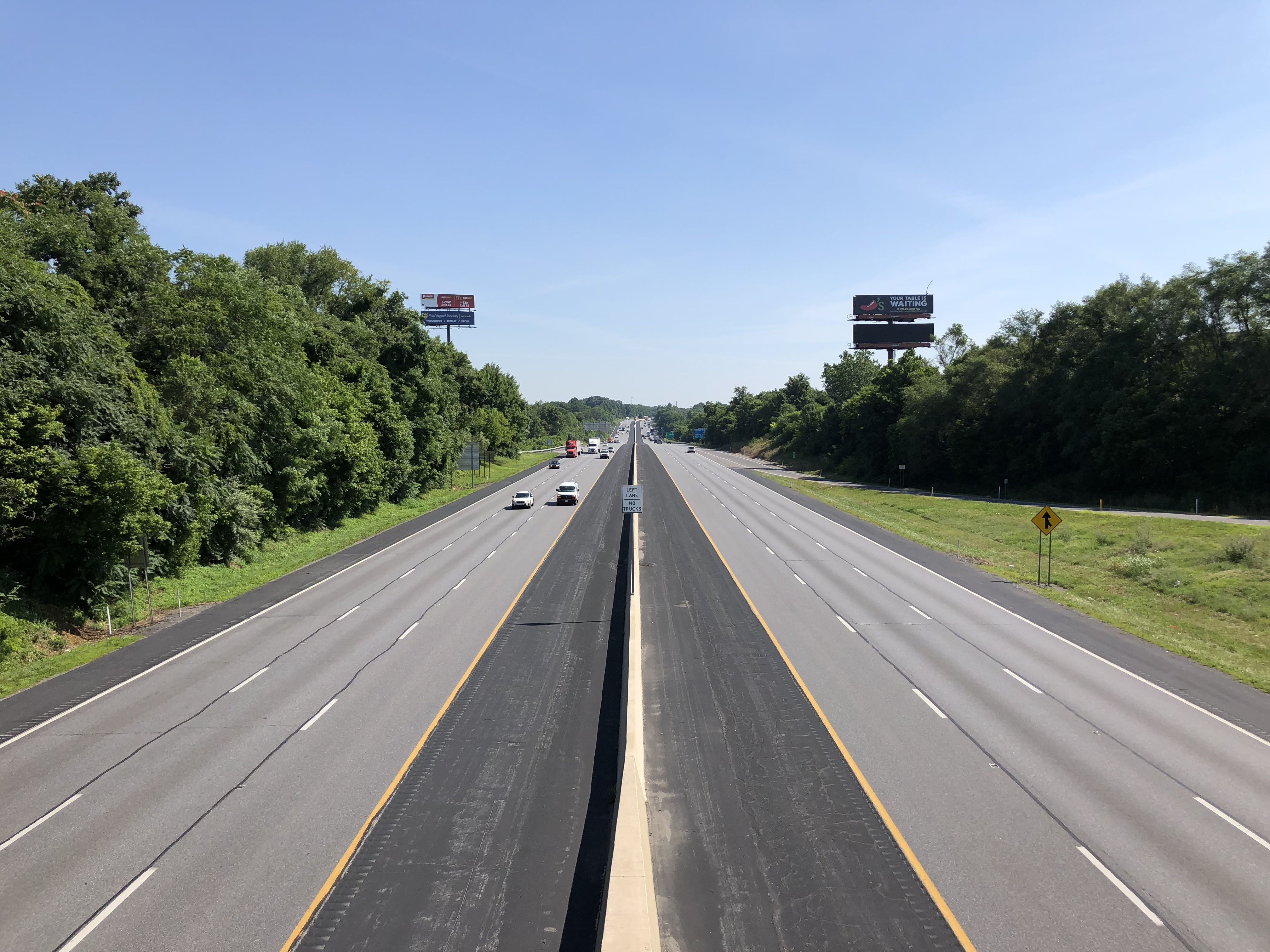 View north along Interstate 81 from the overpass for Berkeley County Route 13 (Dry Run Road) in Nollville, Berkeley County, West Virginia